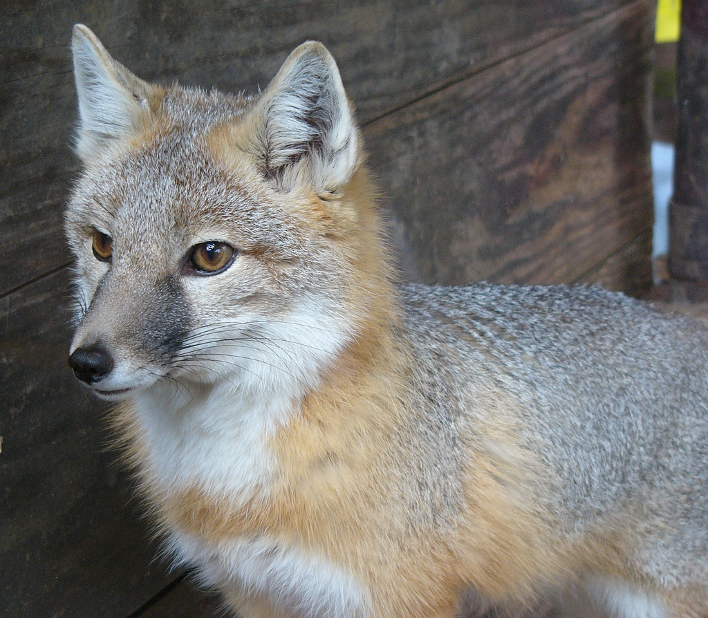 A Swift Fox